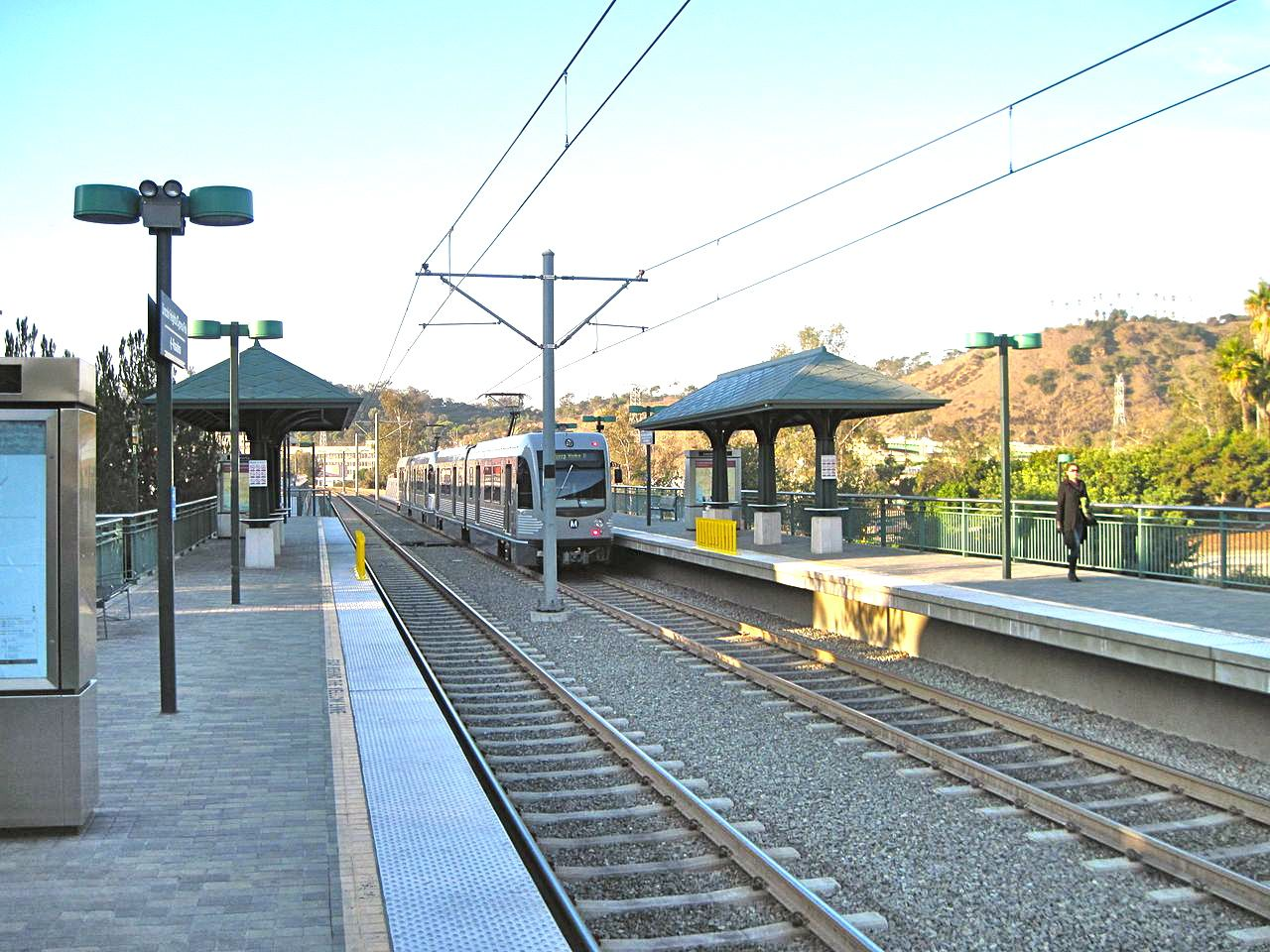 An East Los Angeles-bound train departs the Los Angeles County Metropolitan Transportation Authority's Lincoln Heights/Cypress Park station, serving the Metro Gold Line in Los Angeles, California, USA.